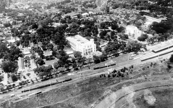 Air photo of the KPM building and the 'Willemskerk' at Weltevreden, Batavia